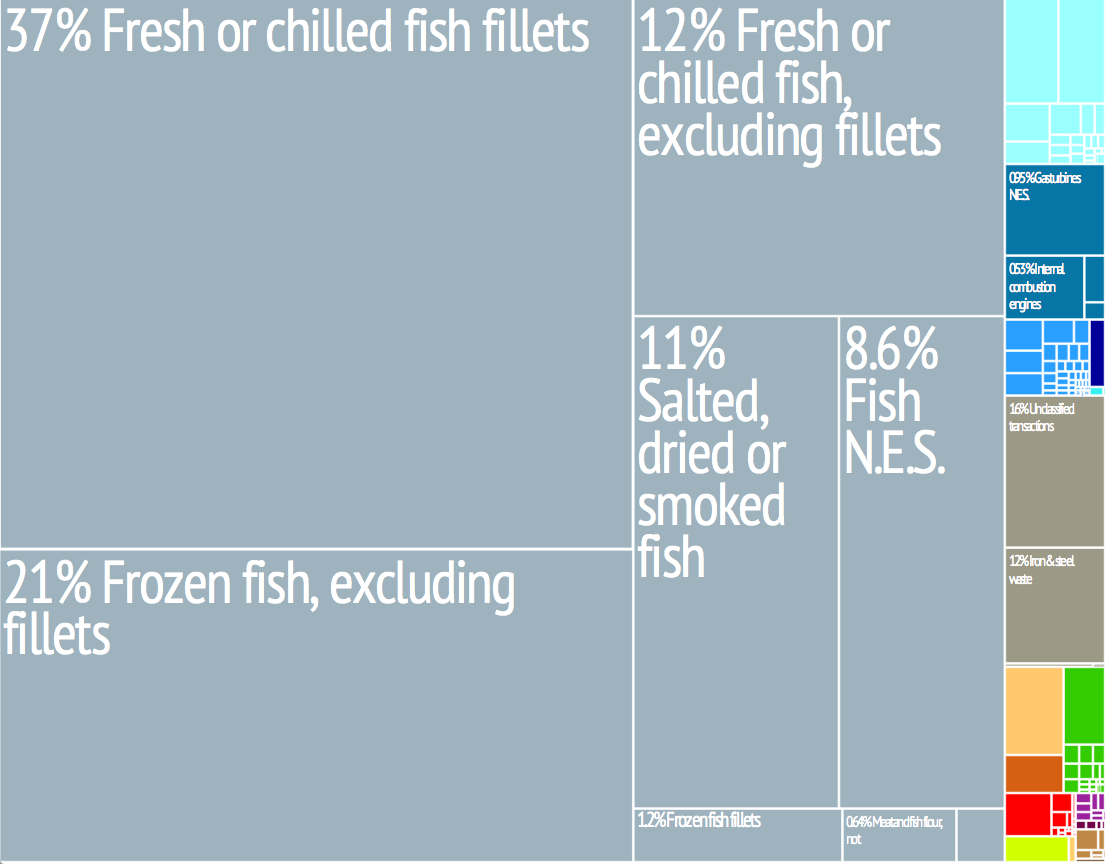 Export Trading Treemap. From MIT/Harvard Atlas of Economic Complexity